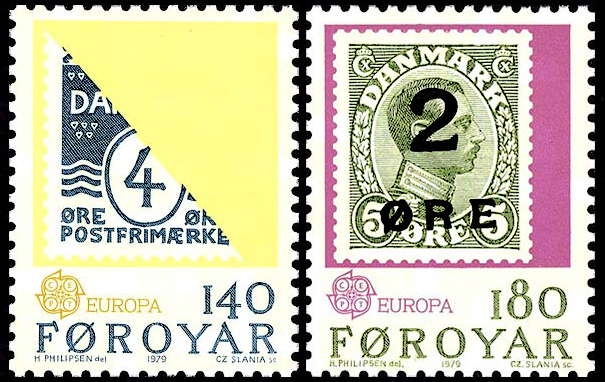 Postage stamps of the Faroe Islands, 1979. Issue under the EUROPA-CEPT program.